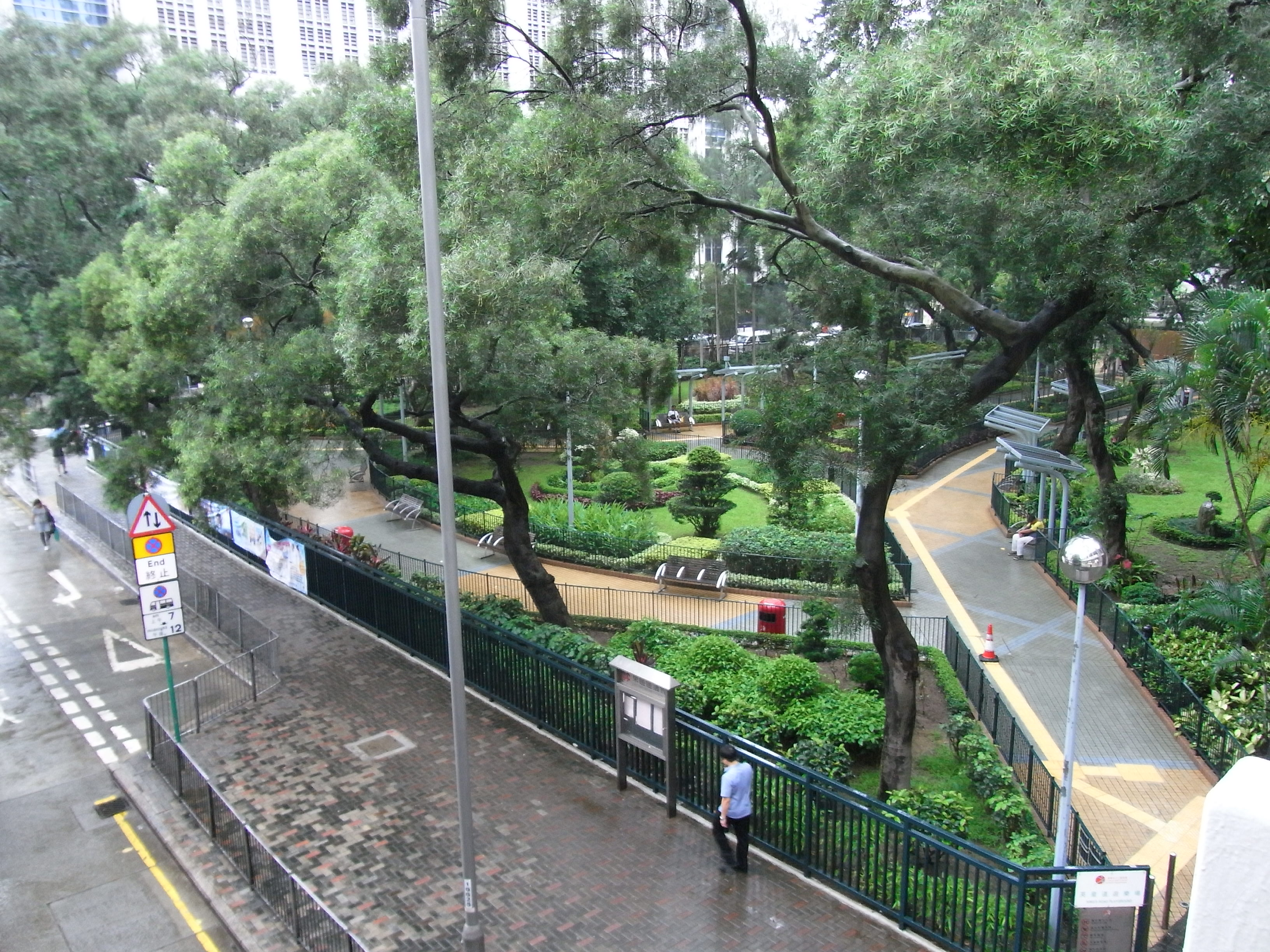 北角 英皇道, King's Road, North Point, Hong Kong